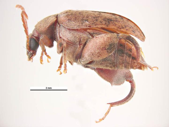 Caryedon gonagra, lateral view. Location: Thailand.